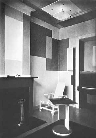 Music room for Til Brugman after being redesigned by Vilmos Huszár (colour) and Gerrit Rietveld (furniture).